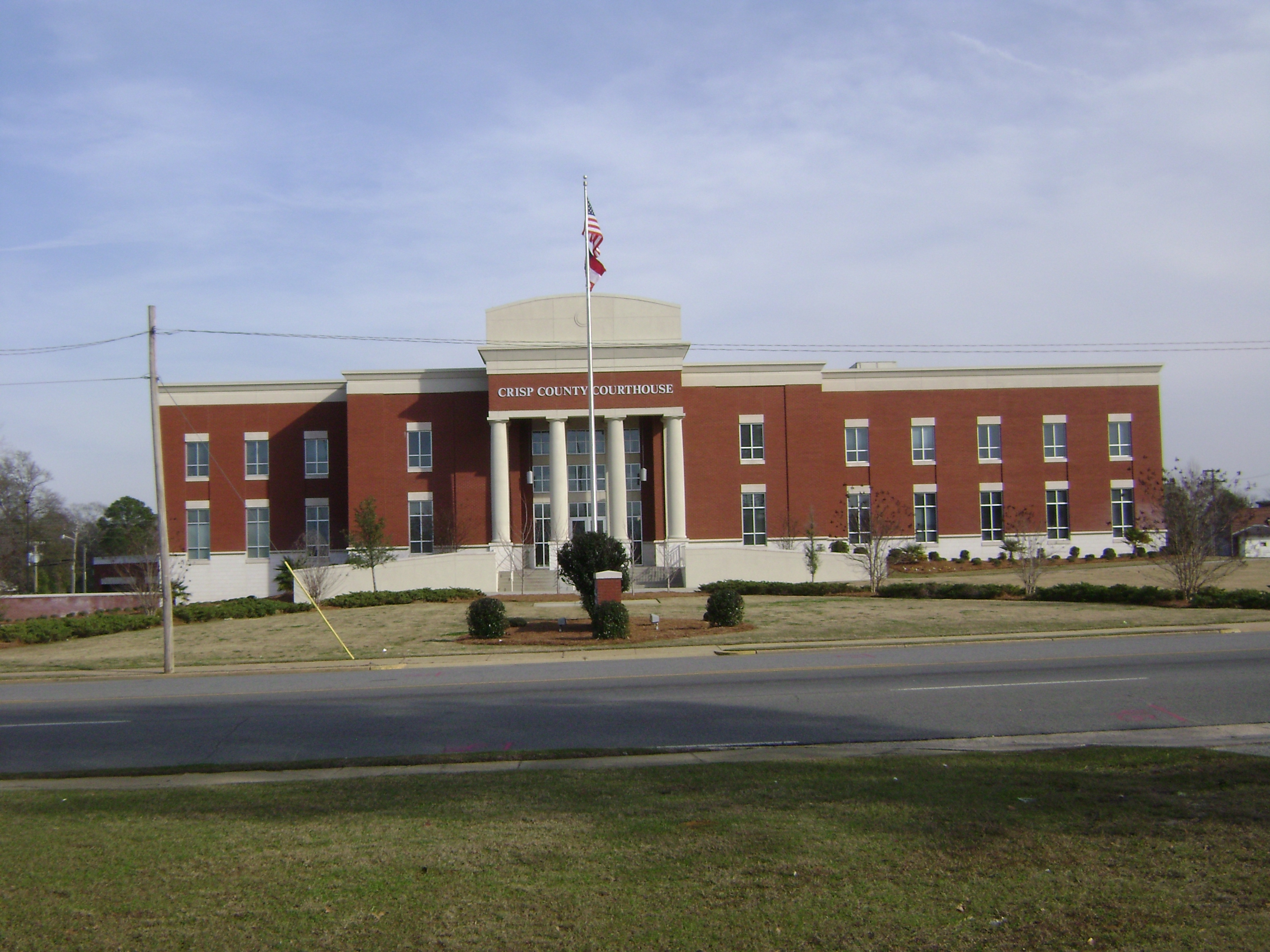 Crisp County Courthouse (west face), 7th St. N., Cordele, Crisp County, Georgia